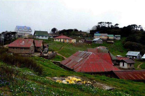 The wide view of Sandakphu,West Bengal, India